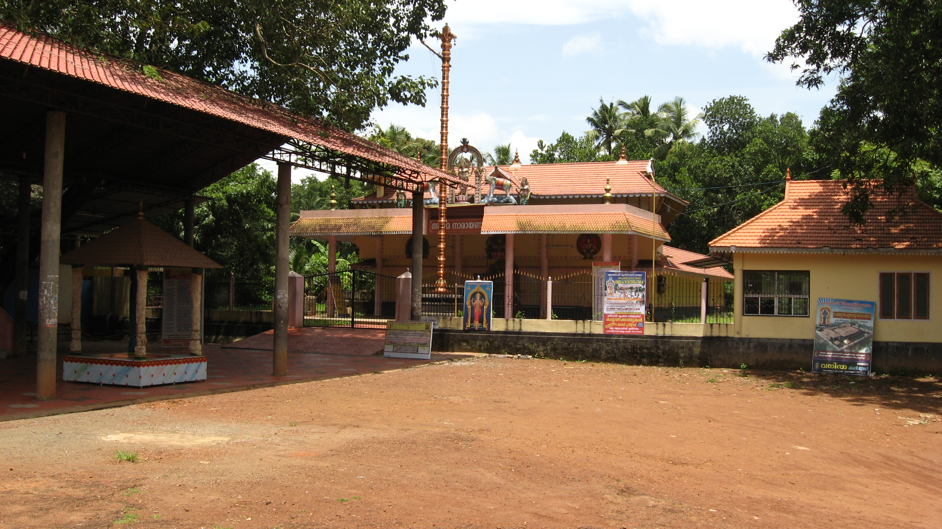 Sree Mangalathu Mahalakshmi Temple